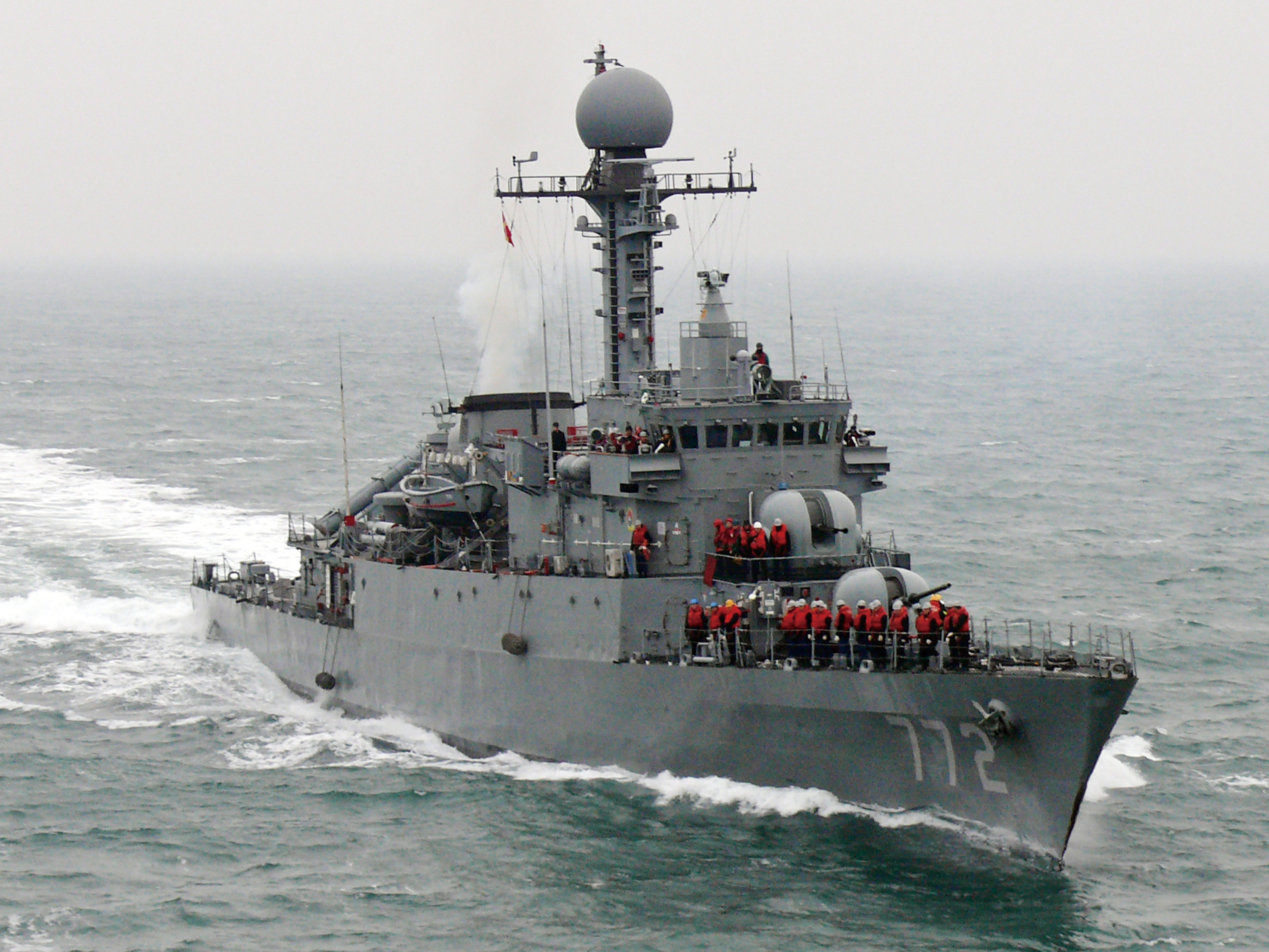 2010 국방화보 Rep. of Korea, Defense Photo Magazine 3월 23일 서해 상에서 군수지원함인 천지함으로부터 유류 수급을 받은 뒤 위풍당당하게 물살을 가르며 항해 중인 천안함의 모습. 천안함은 3월 26일 밤 백령도 인근 해상에서 침몰했다. ROKS Cheonan is maneuvering at sea after getting fuel by ROKS Cheonji(ROK Navy AOE) on March 23. ROKS Cheonan was attacked at March 26.